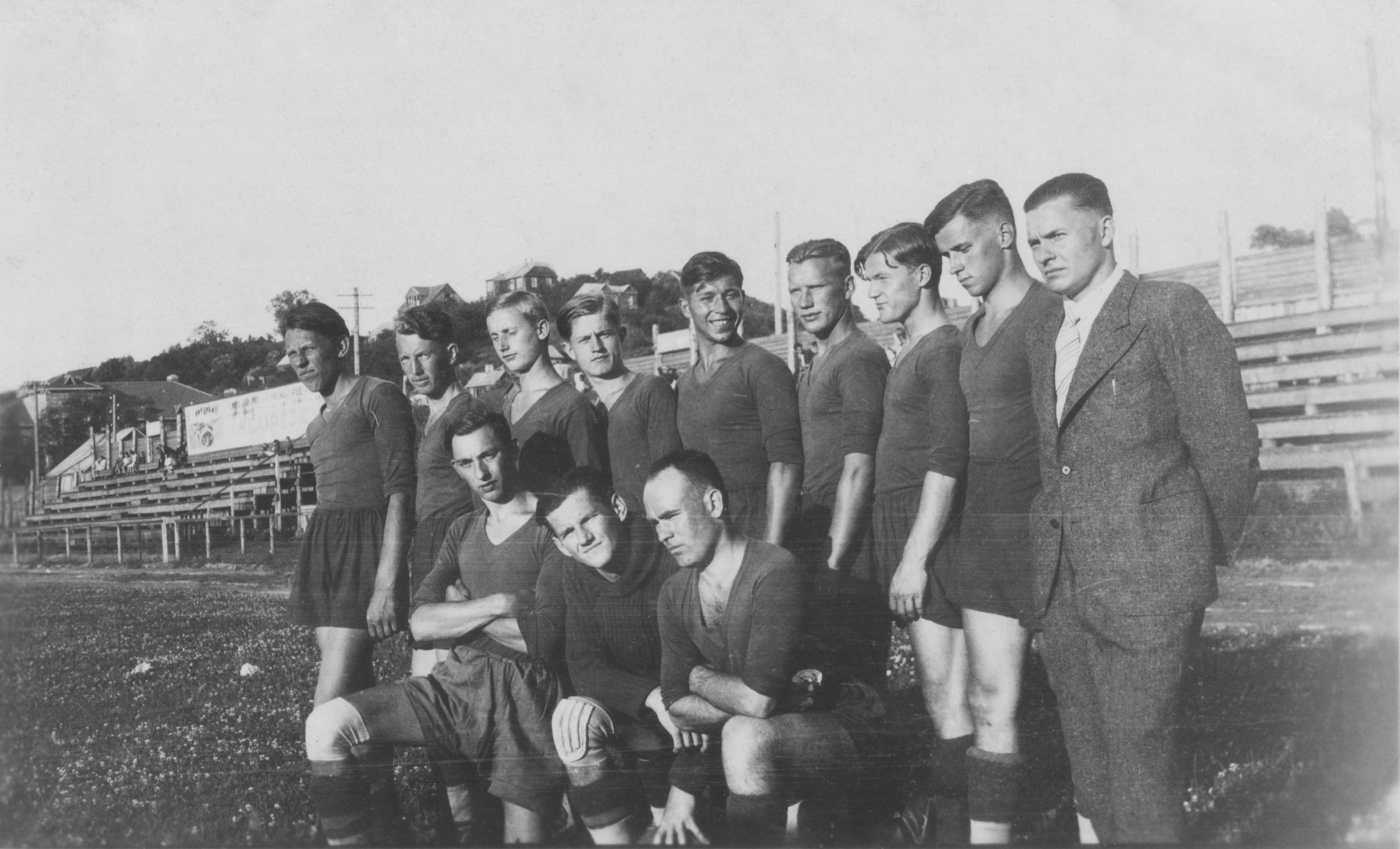 Lithuanian football (soccer) FC "Tauras" Kaunas A class team in Maccabi stadium. Kaunas 1936. Picture from Aleksandras Neverauskas (standing 2nd from the left) personal archives.